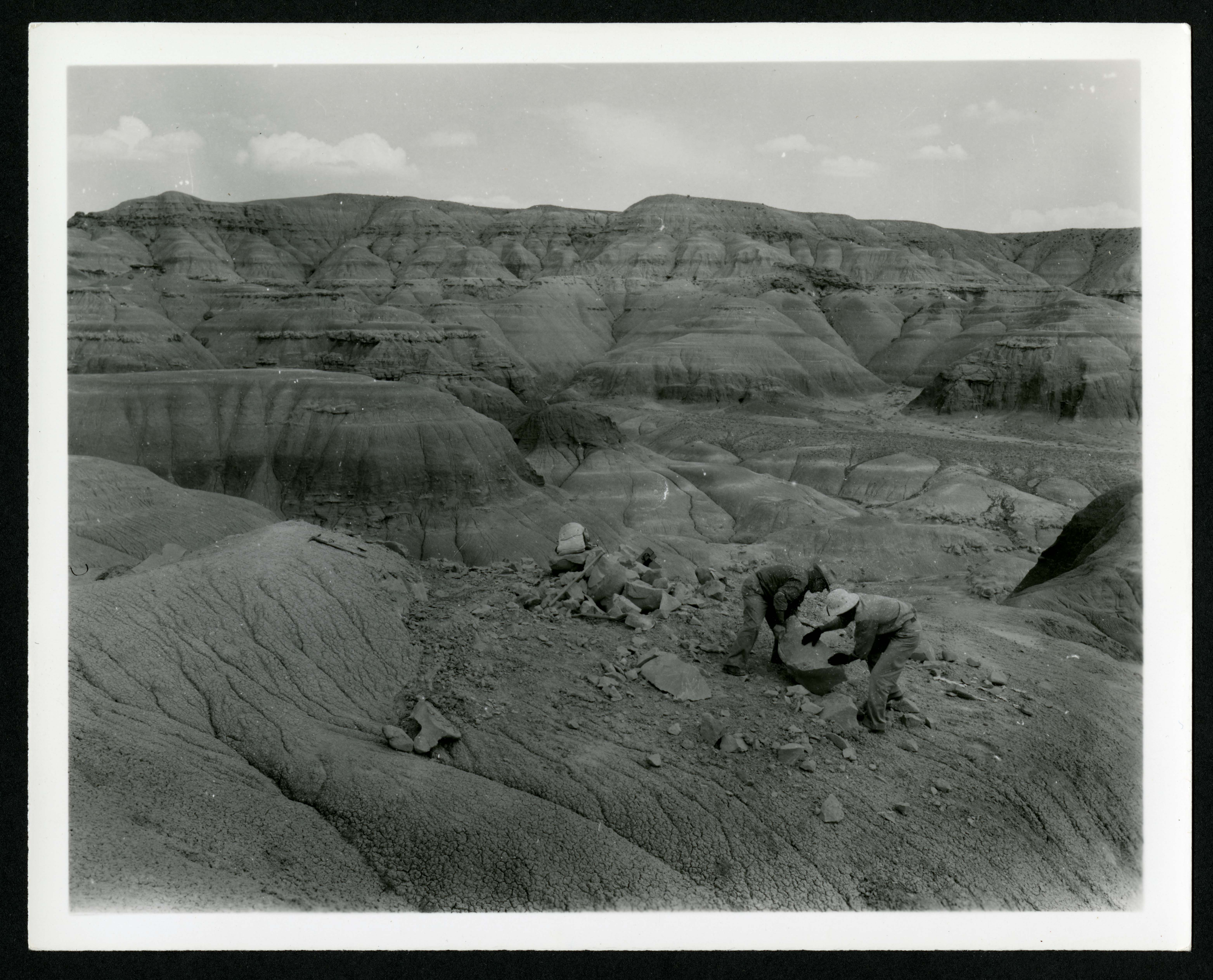 Creator: Charles Lewis Gazin Local number: SIA2012-3254 Summary: RU 007314, Box 18, Folder 16; 1941 Expedition to Wyoming - Field Photos. Photograph of Charles Lewis Gazin's field work and collecting in Wyoming, 1941. Two men examine large piece of rock in foreground. Mountains in background. Dates: 1941 Repository: Smithsonian Institution Archives Related blog post: (I Get by) With a Little Help from the Department of Paleobiology View more collections from the Smithsonian Institution.